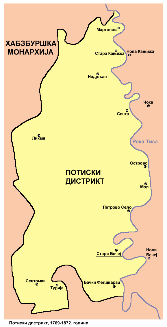 District of Potisje, 1769-1872.